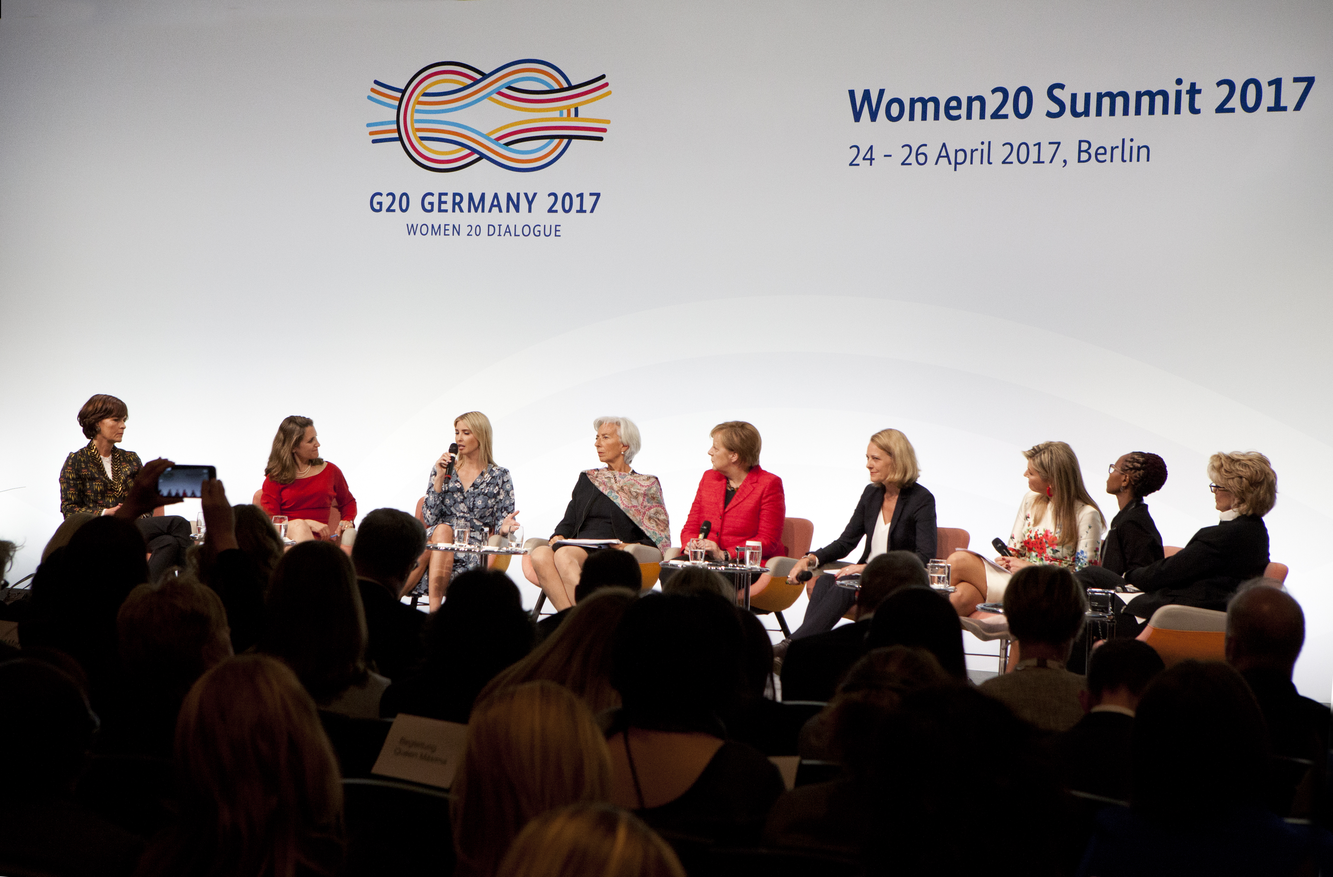 W20 Conference: Panel - Inspiring women: Scaling up women’s entrepreneurship